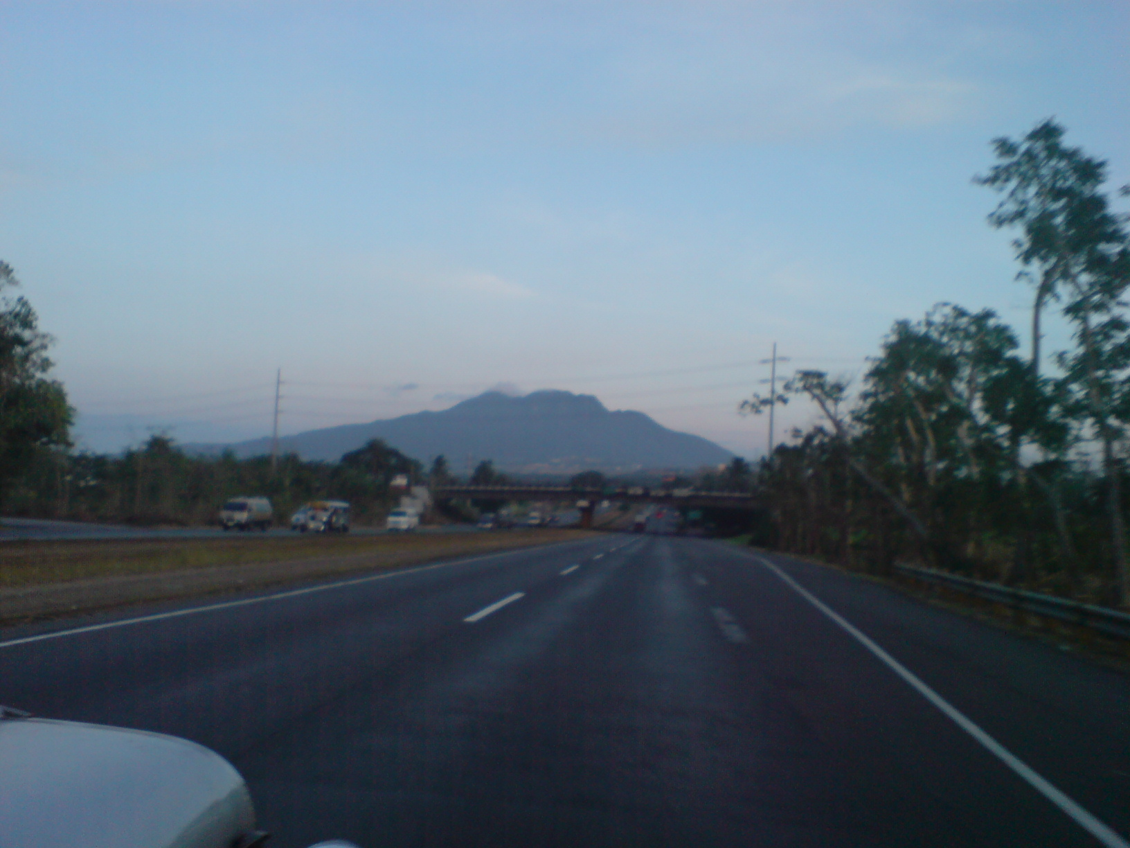 Picture of the South Luzon Tollway just after the southern tollgate near to the end of the road at Calamba, Laguna.